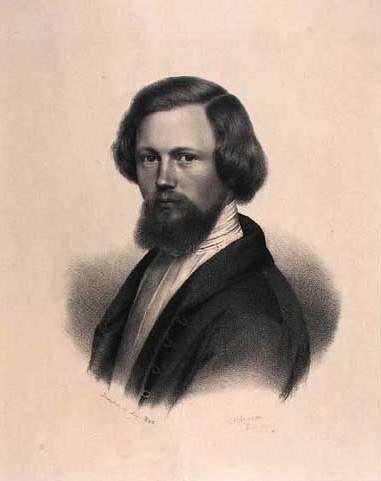 Johann Martin Graack (1816-1899), Danish-German portrait painter, lithographer, and photographer (in Kiel, 1863-80)